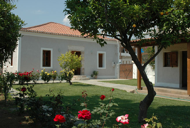 office of the Swiss School of Archaeology in Greece at Eretria. XIXth century neo-classical house